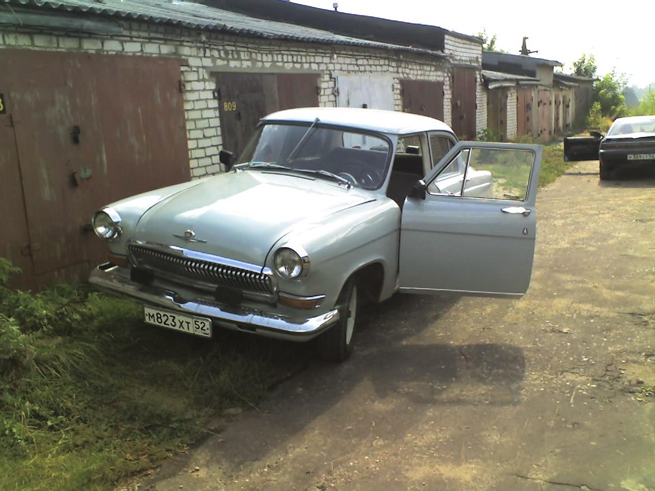 Soviet classic car - GAZ-M-21 Volga. Produced 1963. Some unoriginal parts like mirrors. Overall good condition but some minor rust on left rear fender. Photo by Stanislav Alexeyev aka DL24, august 2007. No (C).